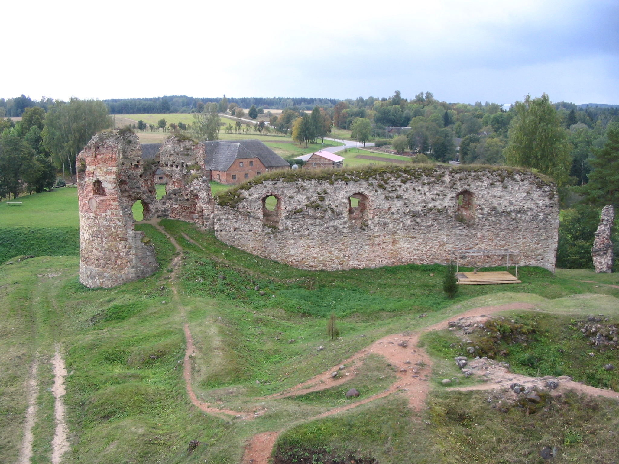 Vastseliina Castle. Southern wall and remains of SE tower. View from the NE tower. A pub at the former Riga-Pskov road in the background. Lower-left a path encircles the remains of the keep.